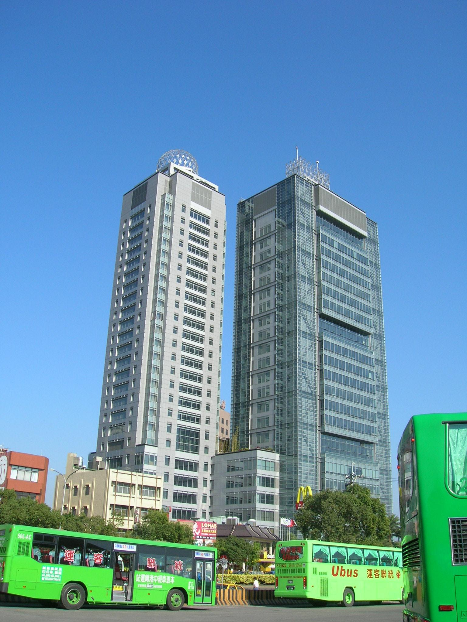 Pou Chen Group Headquarters in Taichung City, Taiwan.中文（台灣）: 寶成國際集團總部，位於臺灣臺中市。下方為統聯客運臺中轉運站。Bân-lâm-gú: Pó-sîng Kok-tsè Tsi̍p-thuân tsóng-pōo, uī-î Tâi-uân Tâi-tiong-tshī.